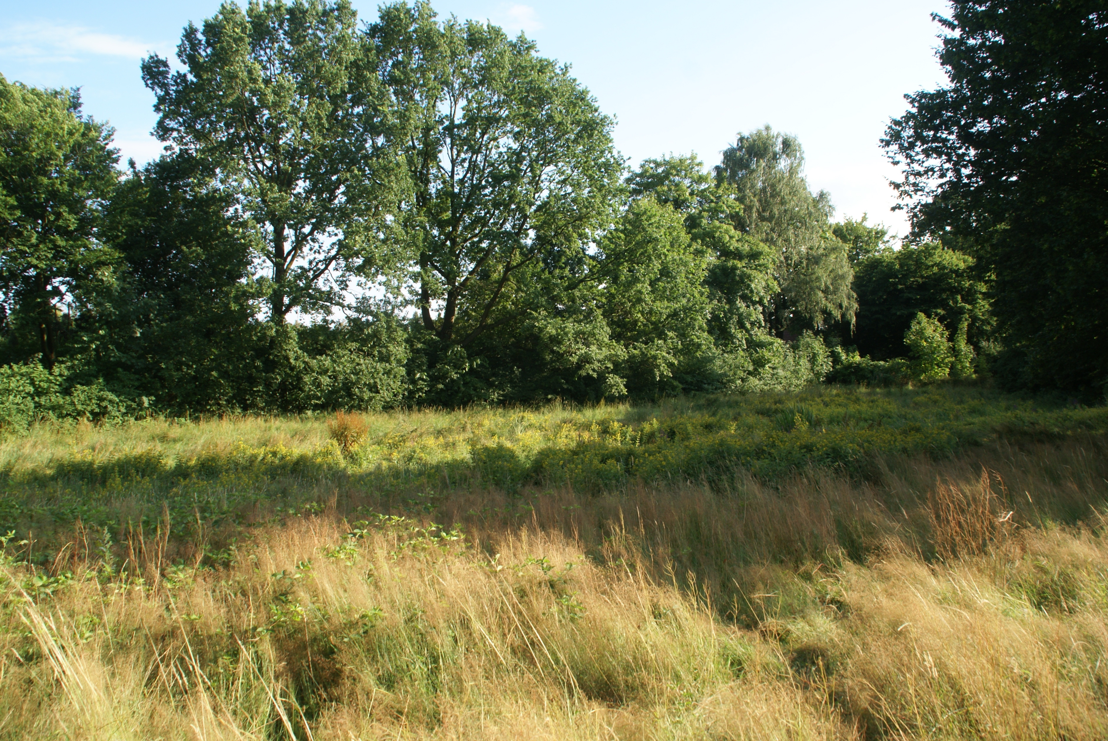 Langenhorn (Germany): Wet meadows at the border of the river Bornbach